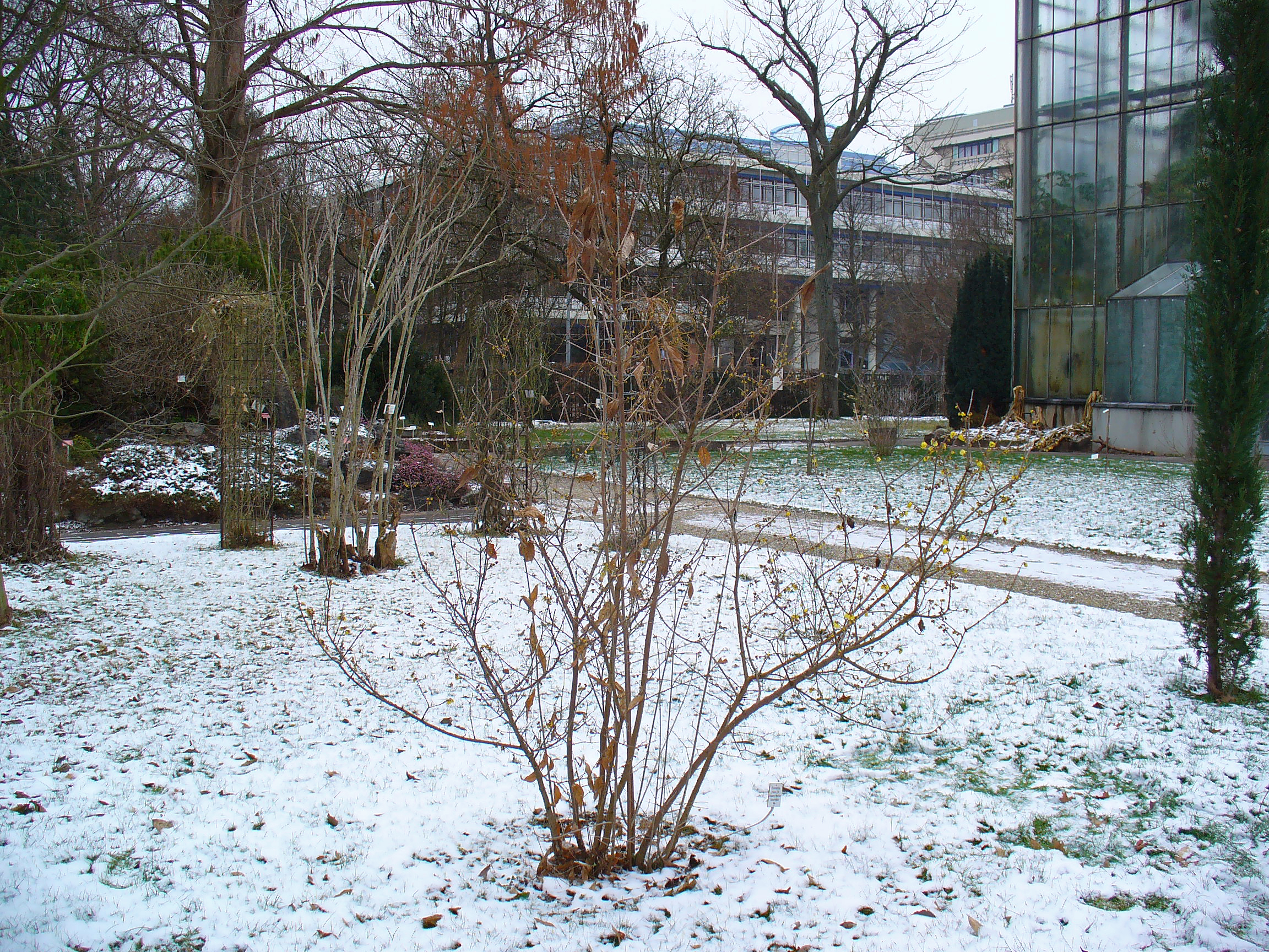 Chimonanthus praecox, Calycanthaceae, Japanese Allspice, habitus. Botanical Garden KIT, Karlsruhe, Germany.